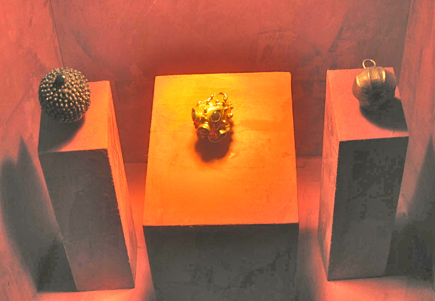 Mikulčice. Gilded objects from burials